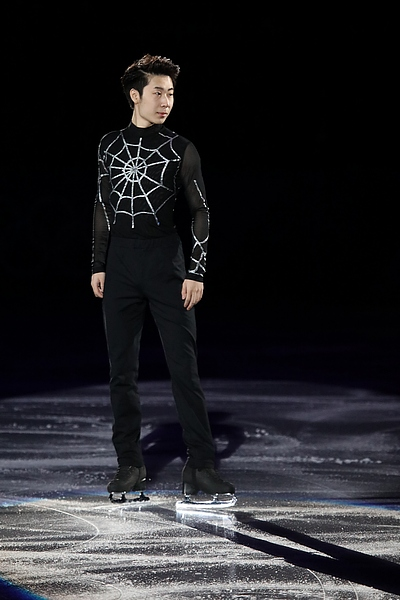 Gala exhibition at the 2018 Winter Olympics